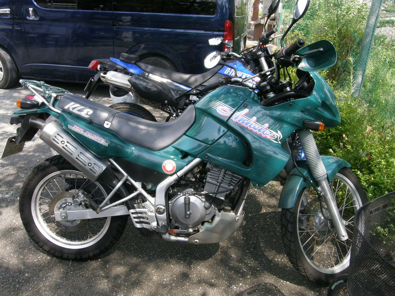 KLE250アネーロ川崎重工業